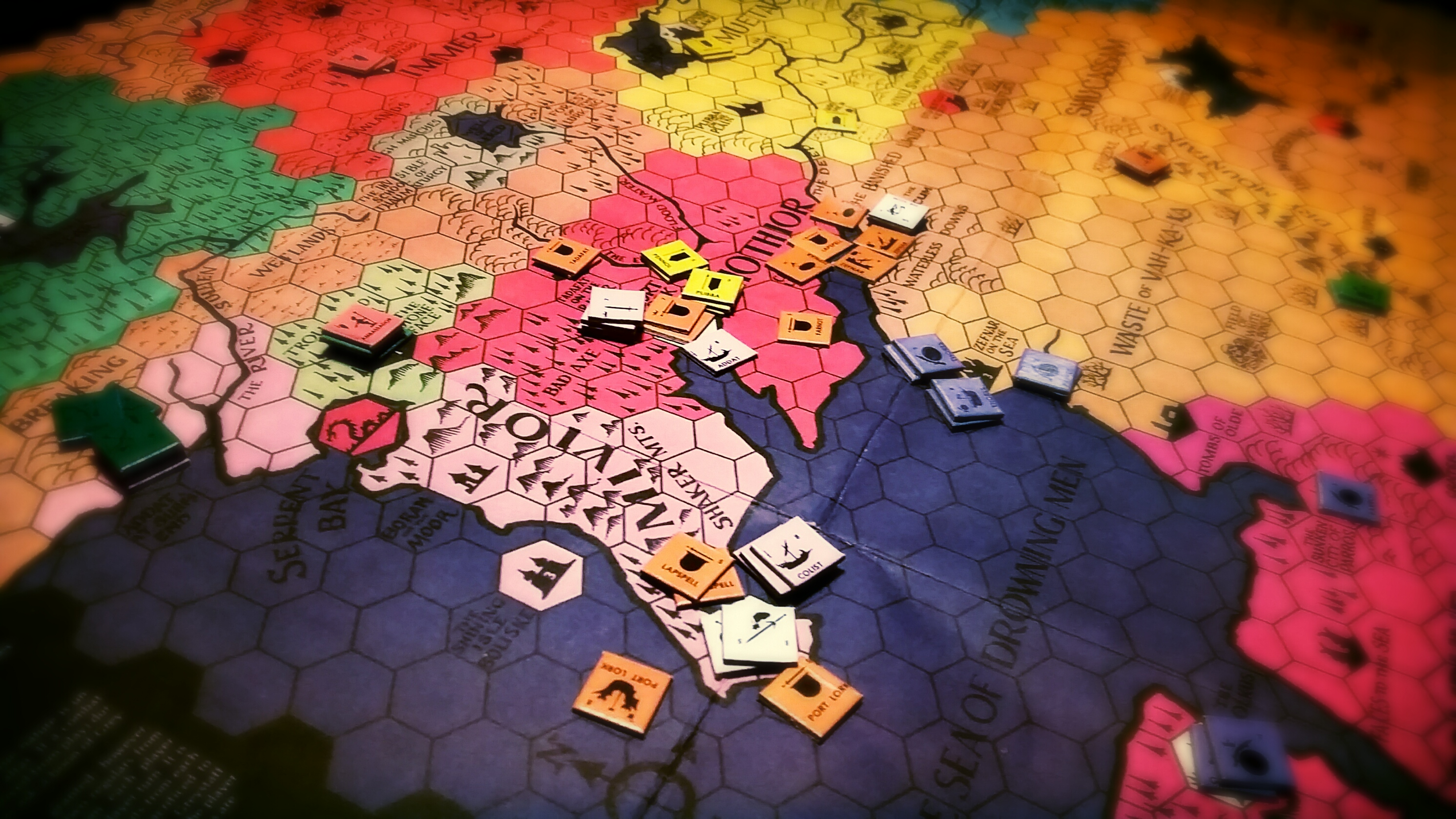 Divine Right is a fantasy board wargame designed by Glenn A. Rahman and Kenneth Rahman. The game was first published in 1979 by TSR, Inc.[1] and a 25th Anniversary Edition was published in 2002 by The Right Stuf International.